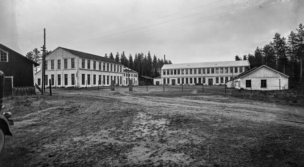 Photo of the Tikkakoski Oy factory (gun factory) taken in the 1930s by Hilma Jokinen (o.s. Helin).